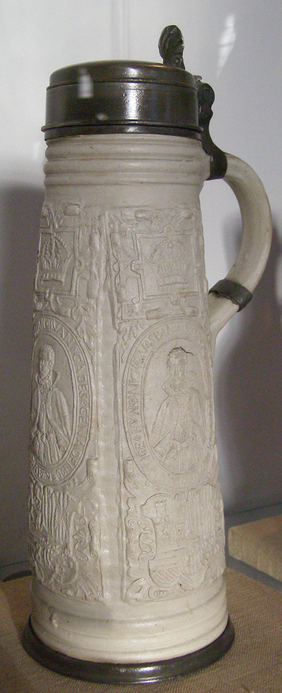 Gdańsk - National Museum - a slim tankard with a portrait of King Philip II of Spain made of grey stoneware; Siegburg (Germany), ca. 1570